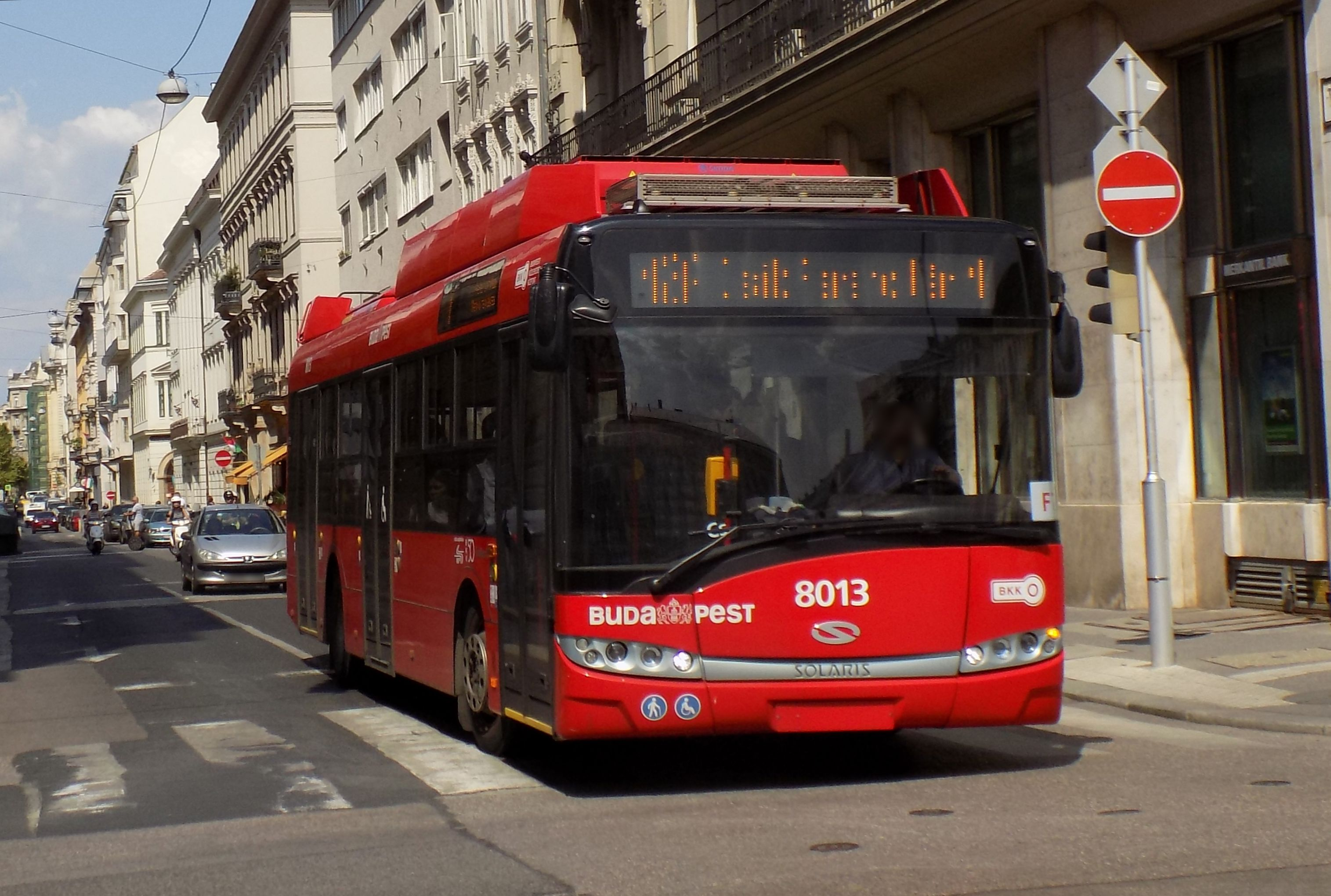 Metro replacement trolleybus in Nádor Street, Budapest (Solaris Trollino 12, cn. 8013)